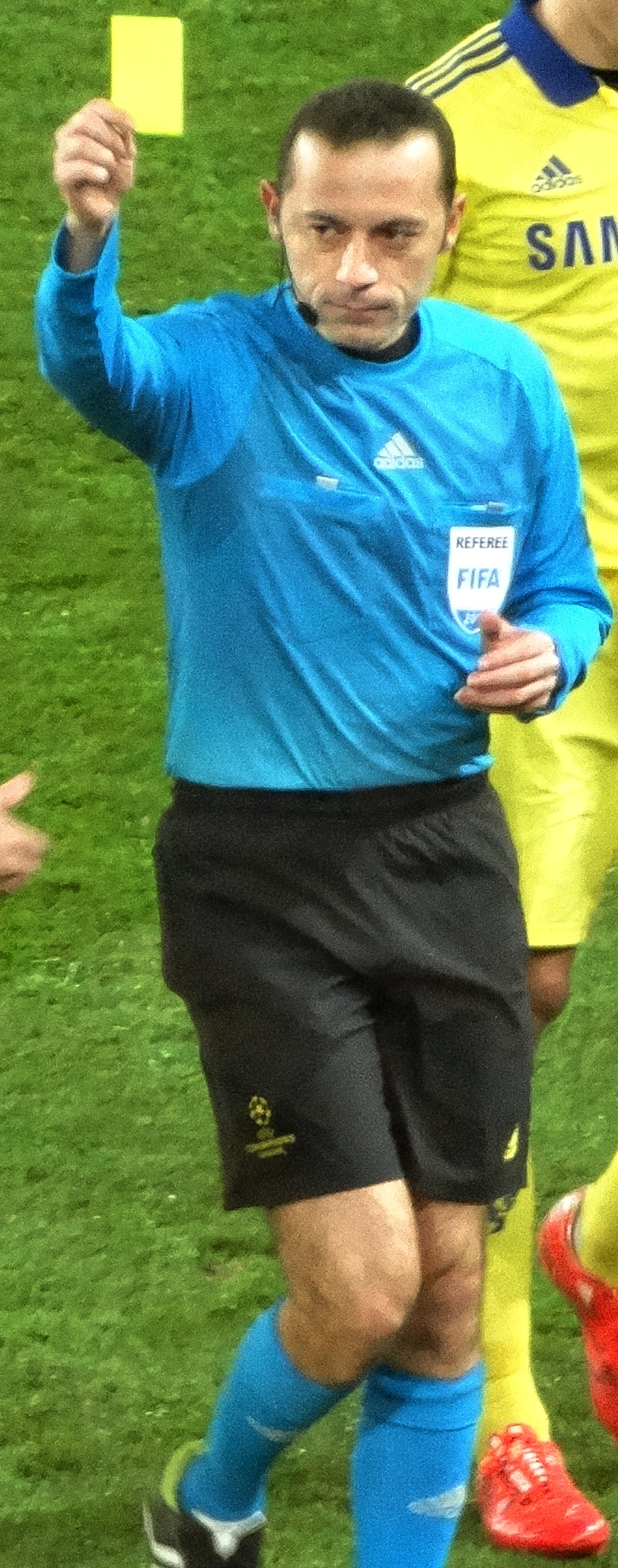 PSG 1 Chelsea 1 Champions League round of 16 1st leg